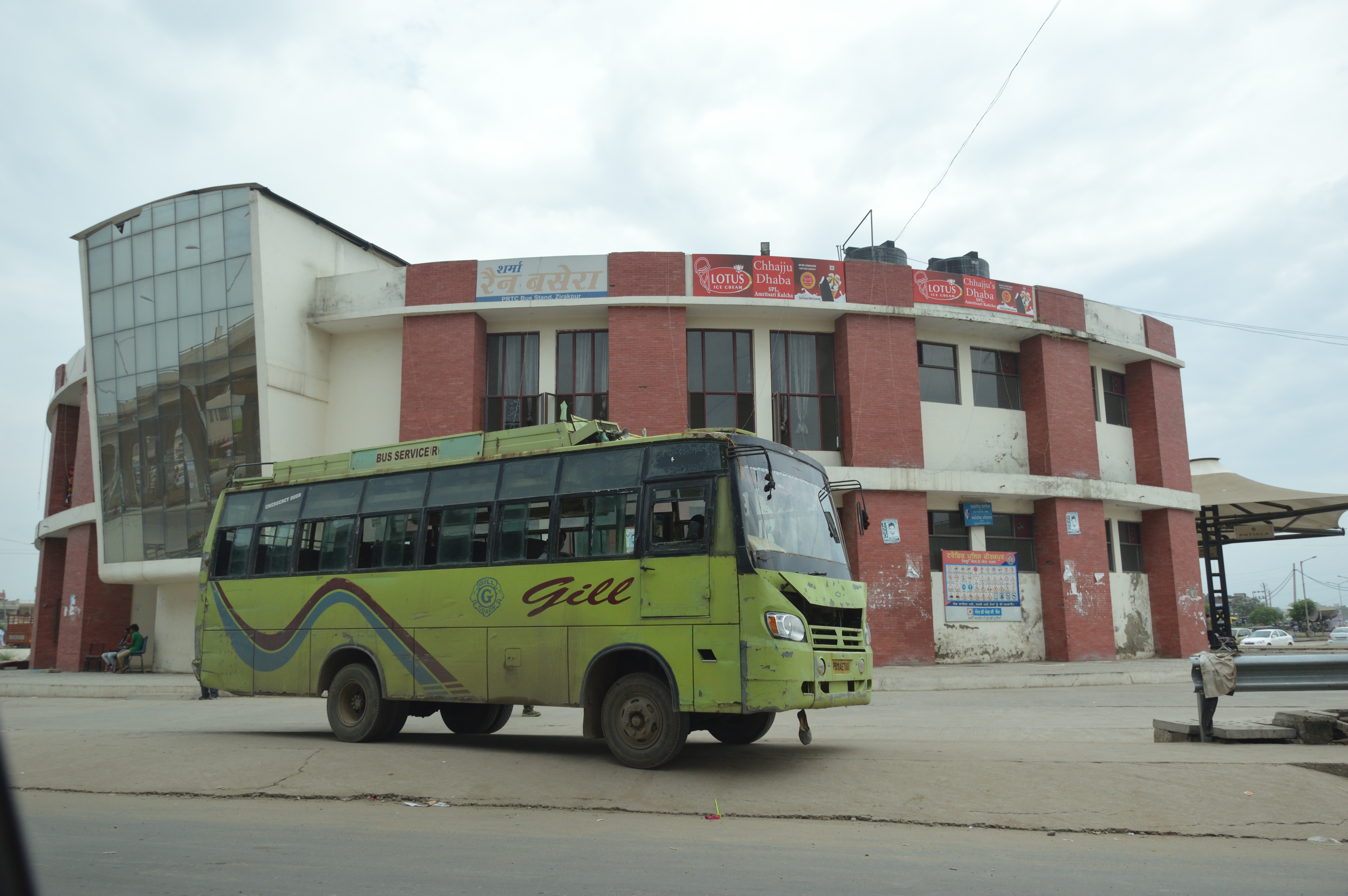 This photograph was taken at Mohali, Punjab.